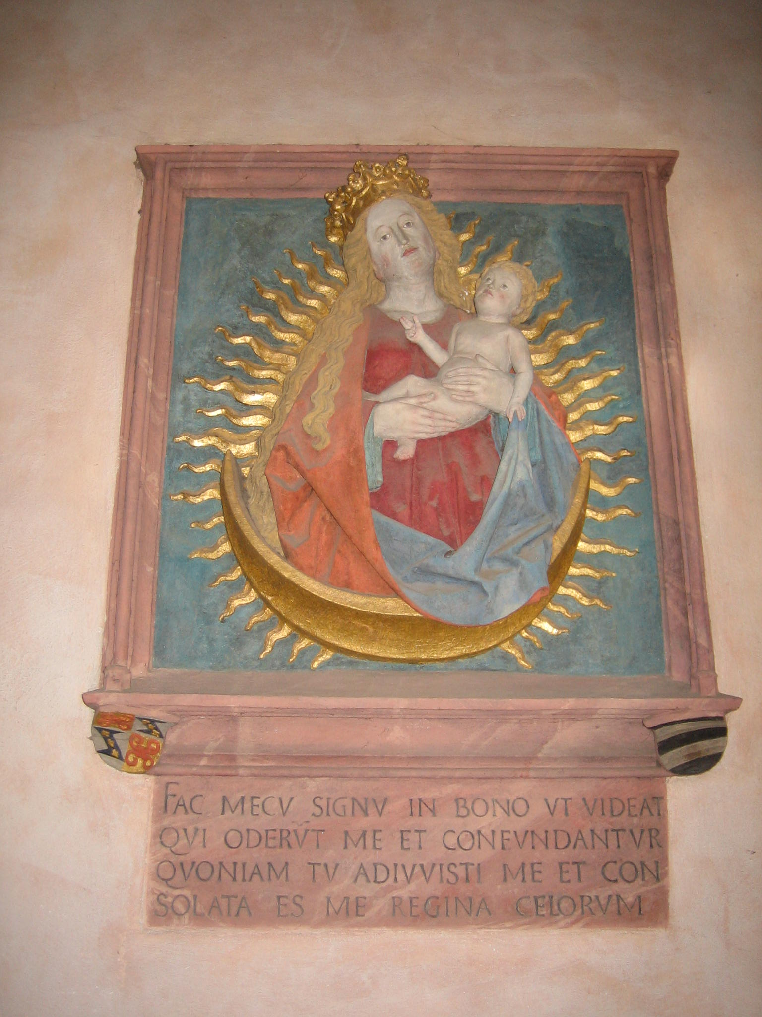 Madonna of the palestine pilgrims, gifted by Bernhard von Breidenbach and Philipp von Bicken, executed by the Master of the Adalbert-Memorial; cloister of the Mainz cathedral.